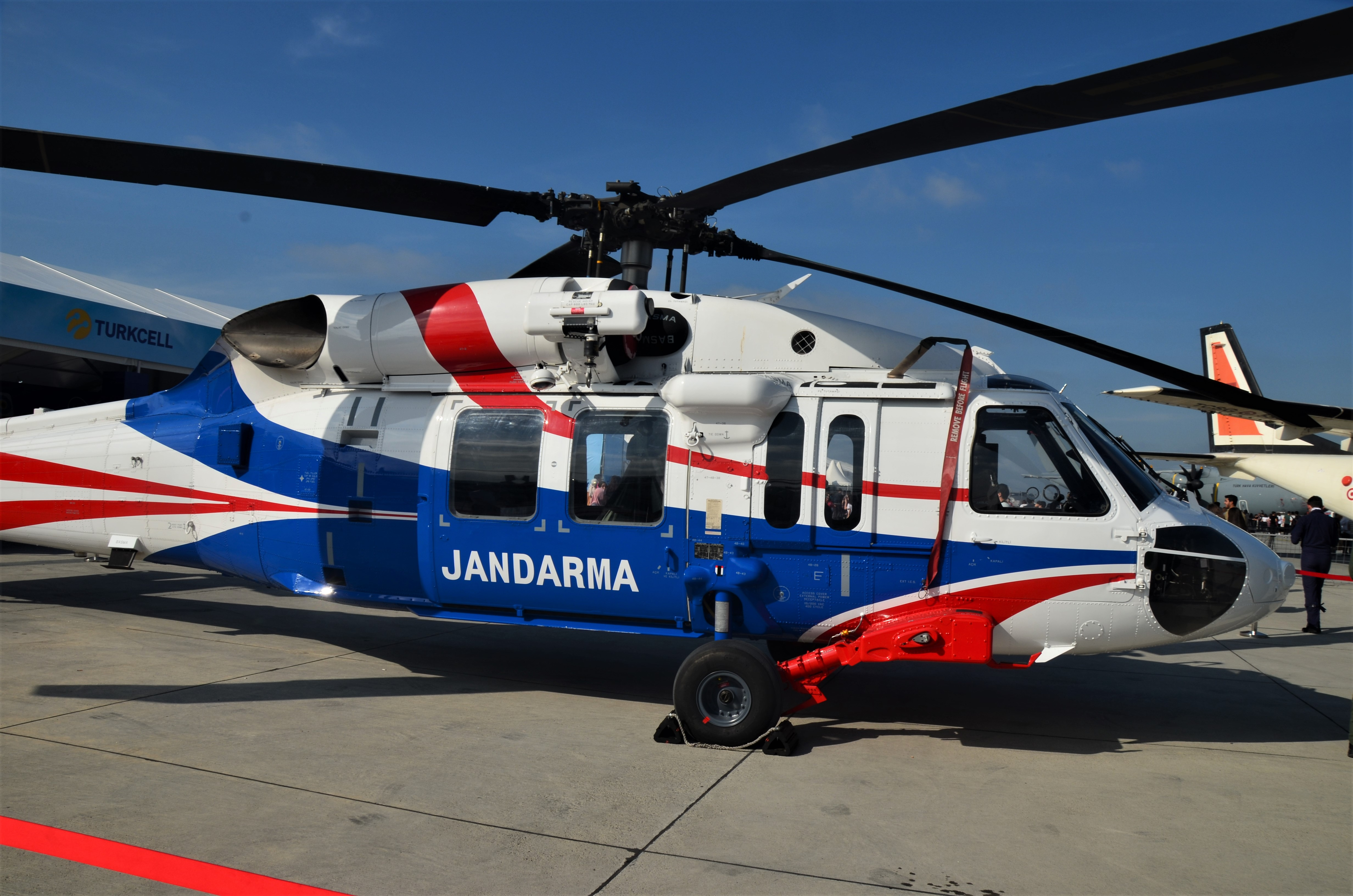 Sikorsky S-70i helicopter of the Turkish Gendarmerie at Teknofest 2019